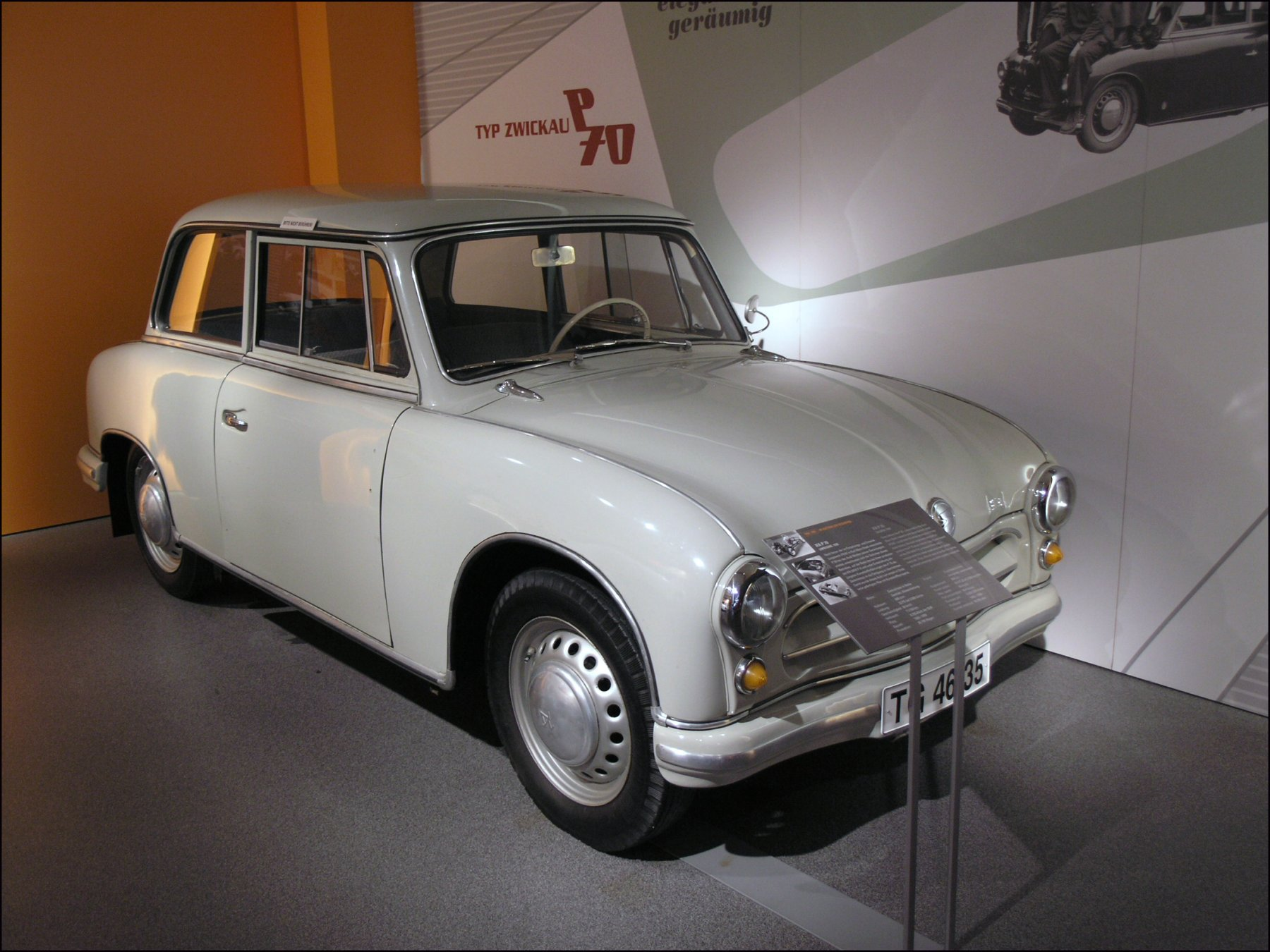 IFA P 70 Limousine